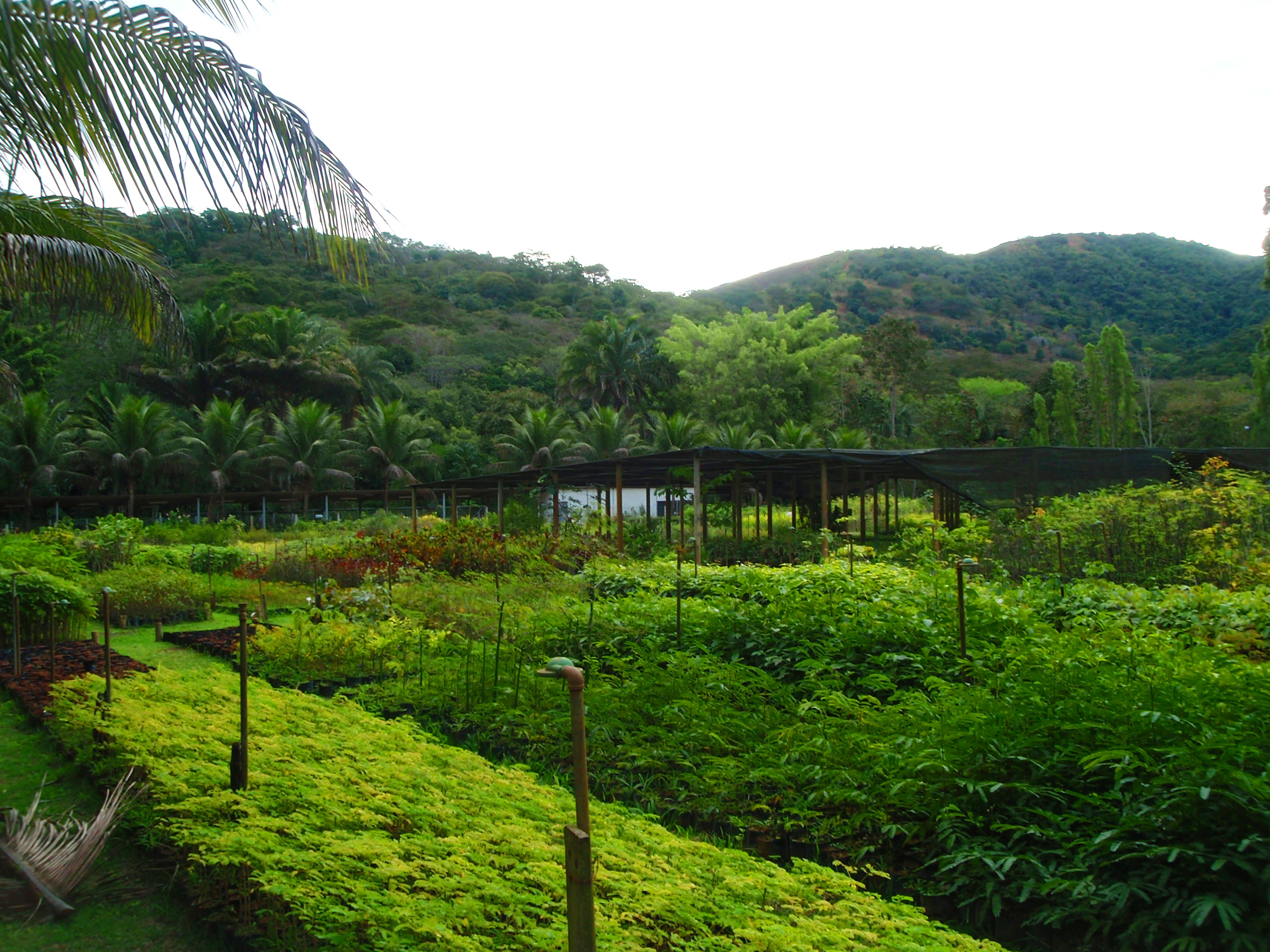 Usipa's Garden, in Ipatinga, Minas Gerais, Brazil.